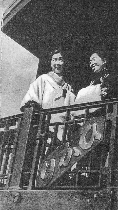 HIKARI Observation car before 1945. HIKARI was the name of an express train operated from Busan in Korea to Hsinking(Changchun) in Manchuria